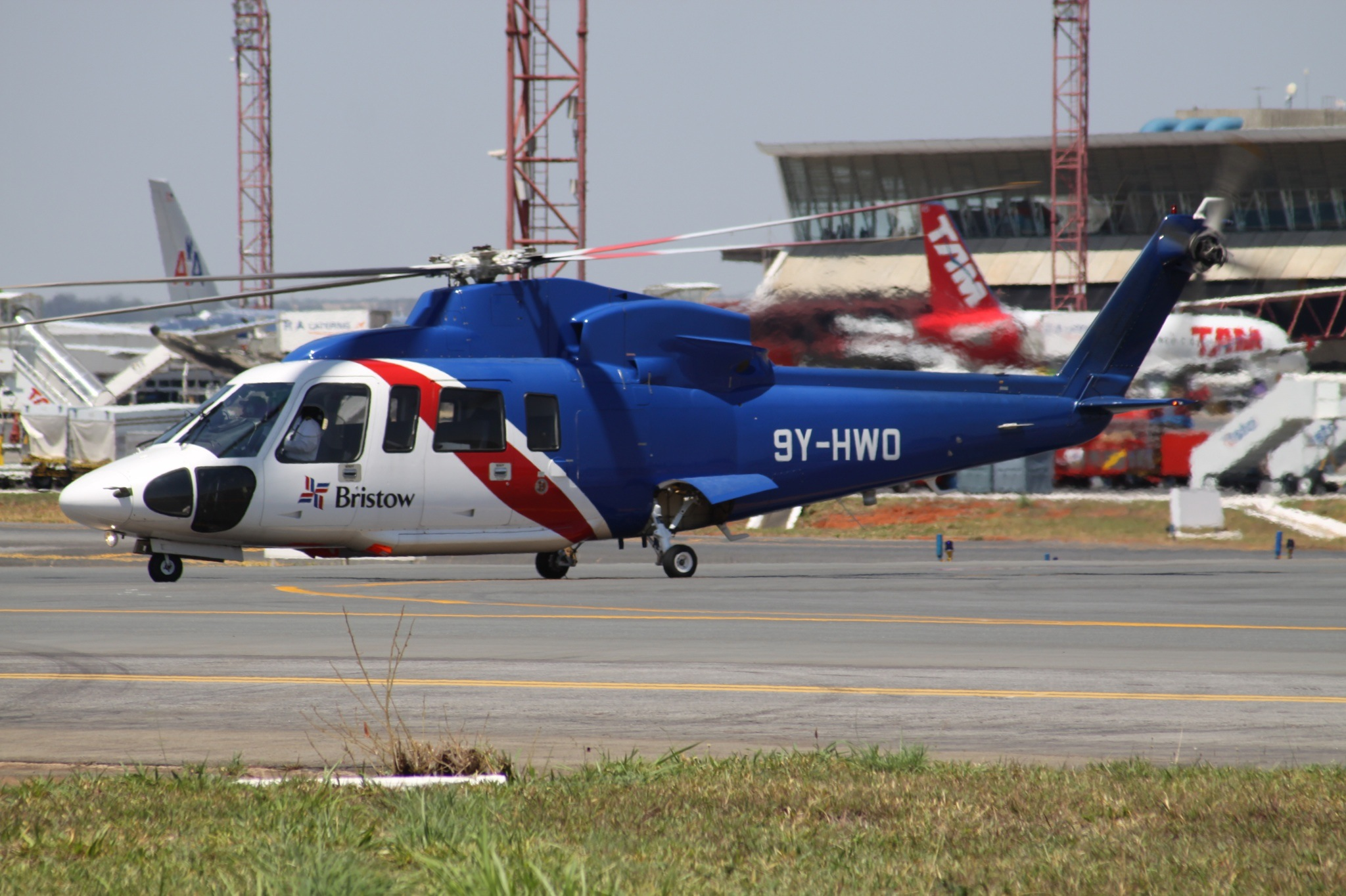 At Brasilia